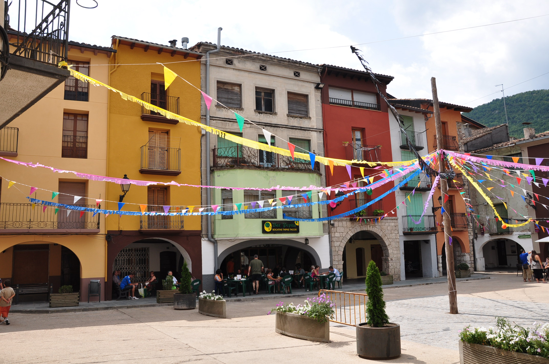 Plaça del Mercadal (Market Square) in El Pont de Suert, a small town in the Alta Ribagorça district, Catalonia, Spain.